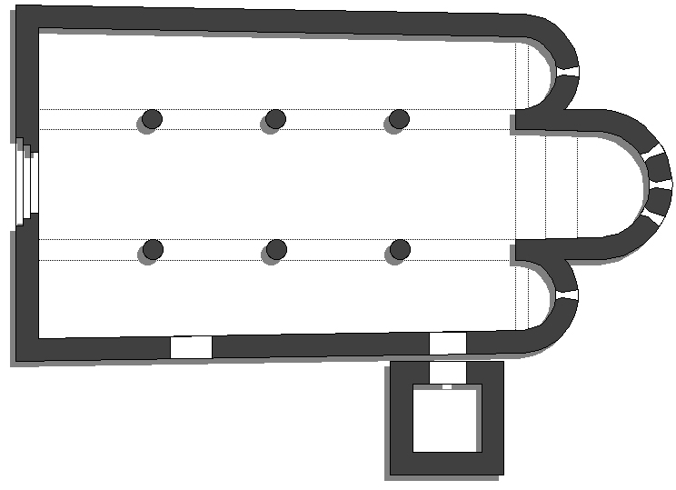 Plan of church of St. Climent of Taull, Lerida (Spain) Romanesque architecture